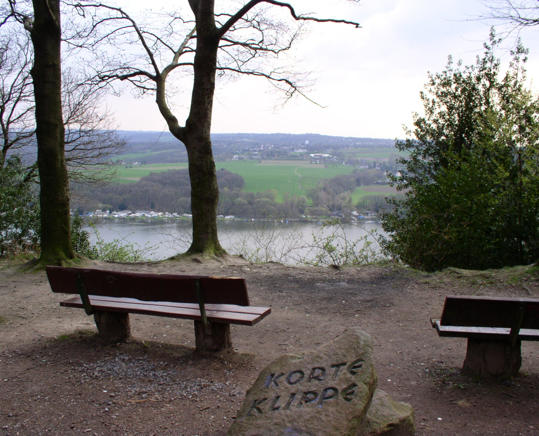 Description: Korte-Klippe in Essen Source: photo taken by me, April 2005 Photographer: Baikonur